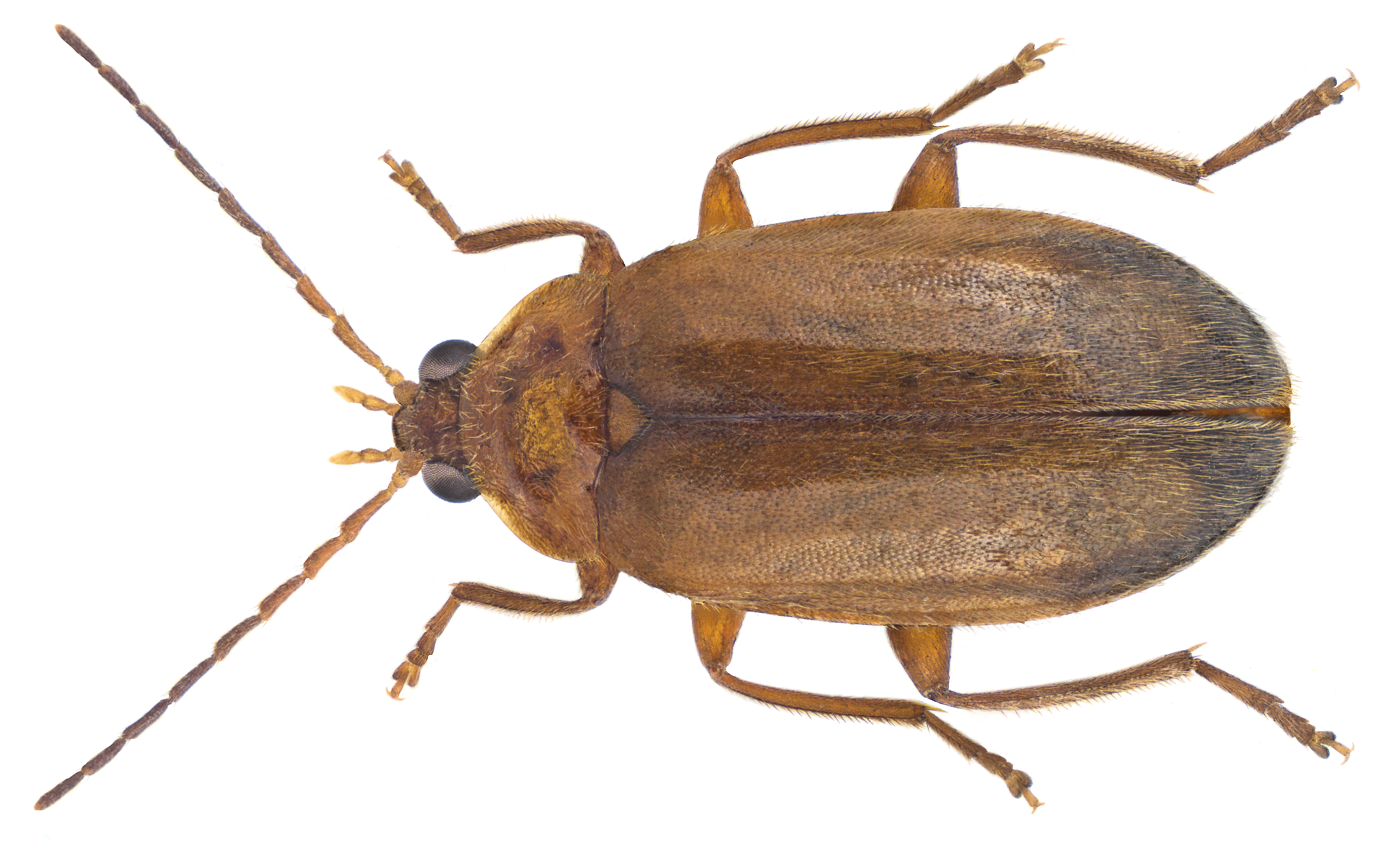 Family: Scirtidae (Helodidae) Size: 5,9 mm (4,5 to 6,0 mm) Distribution: Europe Ecology: the larvae develop in streams, the beetles are on the vegetation close to the shore Location: Austria, Leitha-Gebirge, Donnerskirchen leg.det. U.Schmidt, 3.VI.1975 Photo: U.Schmidt, 2015